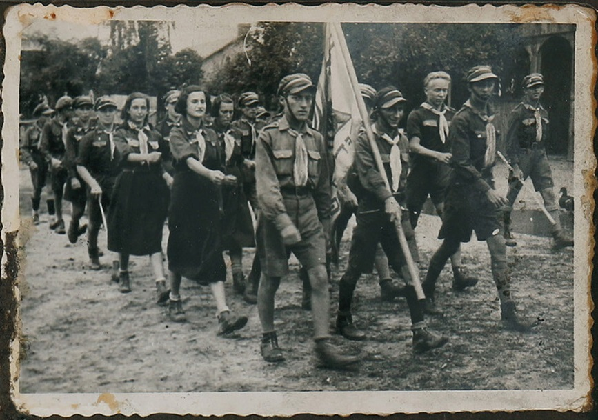 Members of Beitar movement marching at a summer camp in the Polish resort town Zakopane.